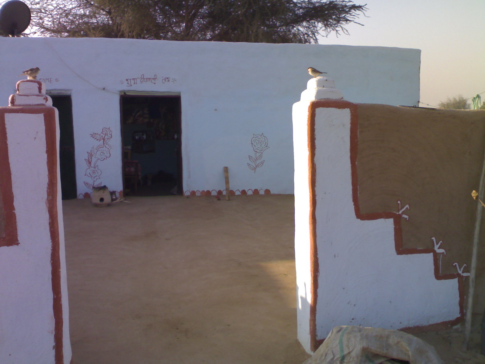 This photo show you a rural kutcha home with art work in Ganganagar district.This photo is created by me(user:Shemaroo aka Sivender Singh, ) Shemaroo (talk) 15:13, 5 March 2011 (UTC)